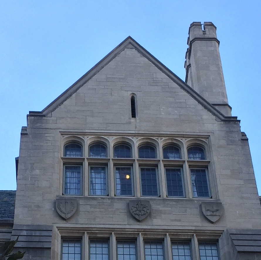 The insignia of three Yale "Sheff" societies, on the exterior of the SSS classroom building.